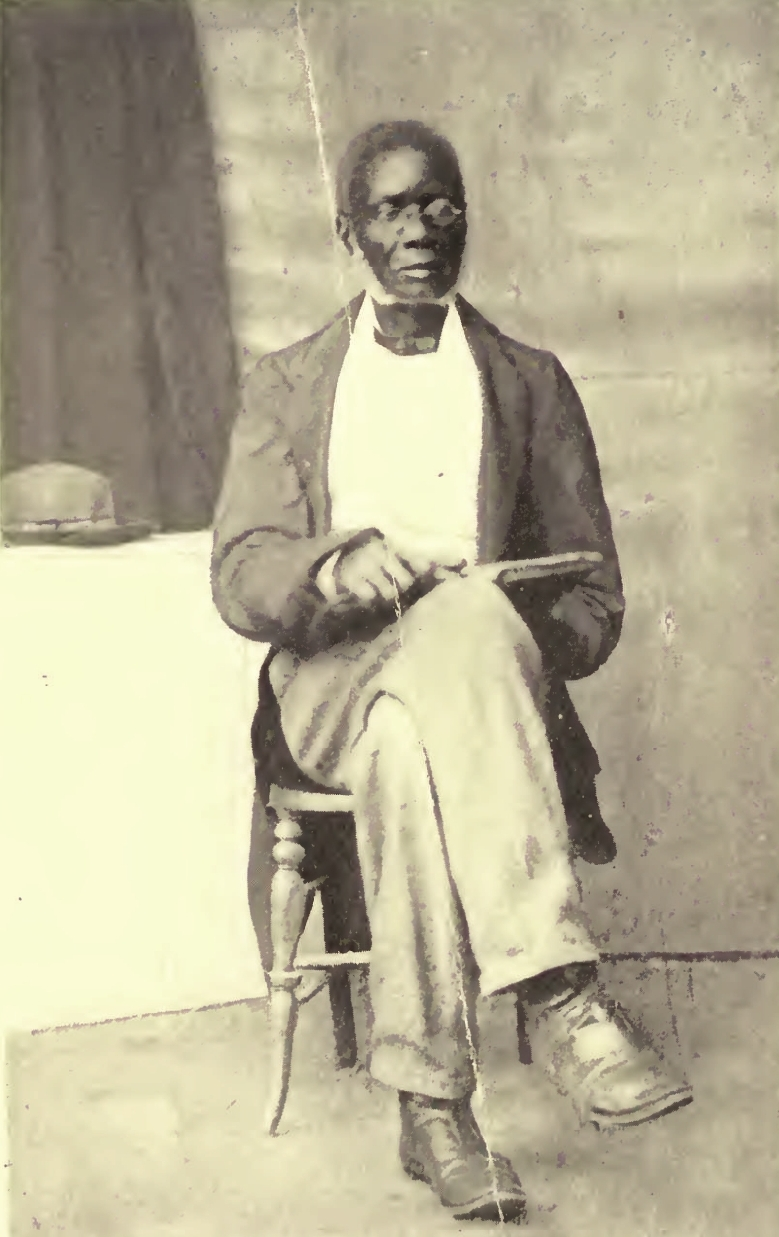 Source : Alfred SAKER, The Pioneer of the Cameroons. By his daughter Emily M. SAKER (1908) Page 40 or